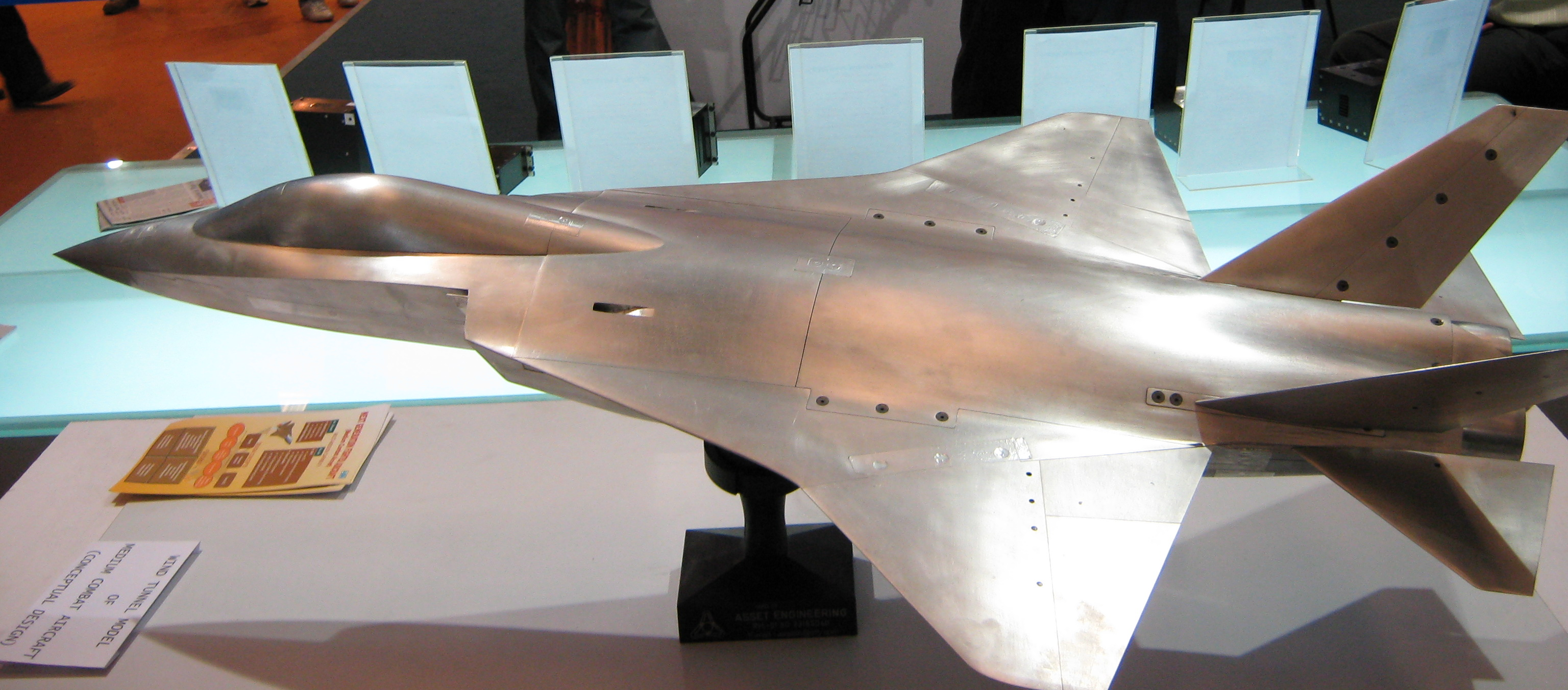 Description - Model of MCA Source - own picture Date - February 13, 2009 Author - johnxxx9 (myself)